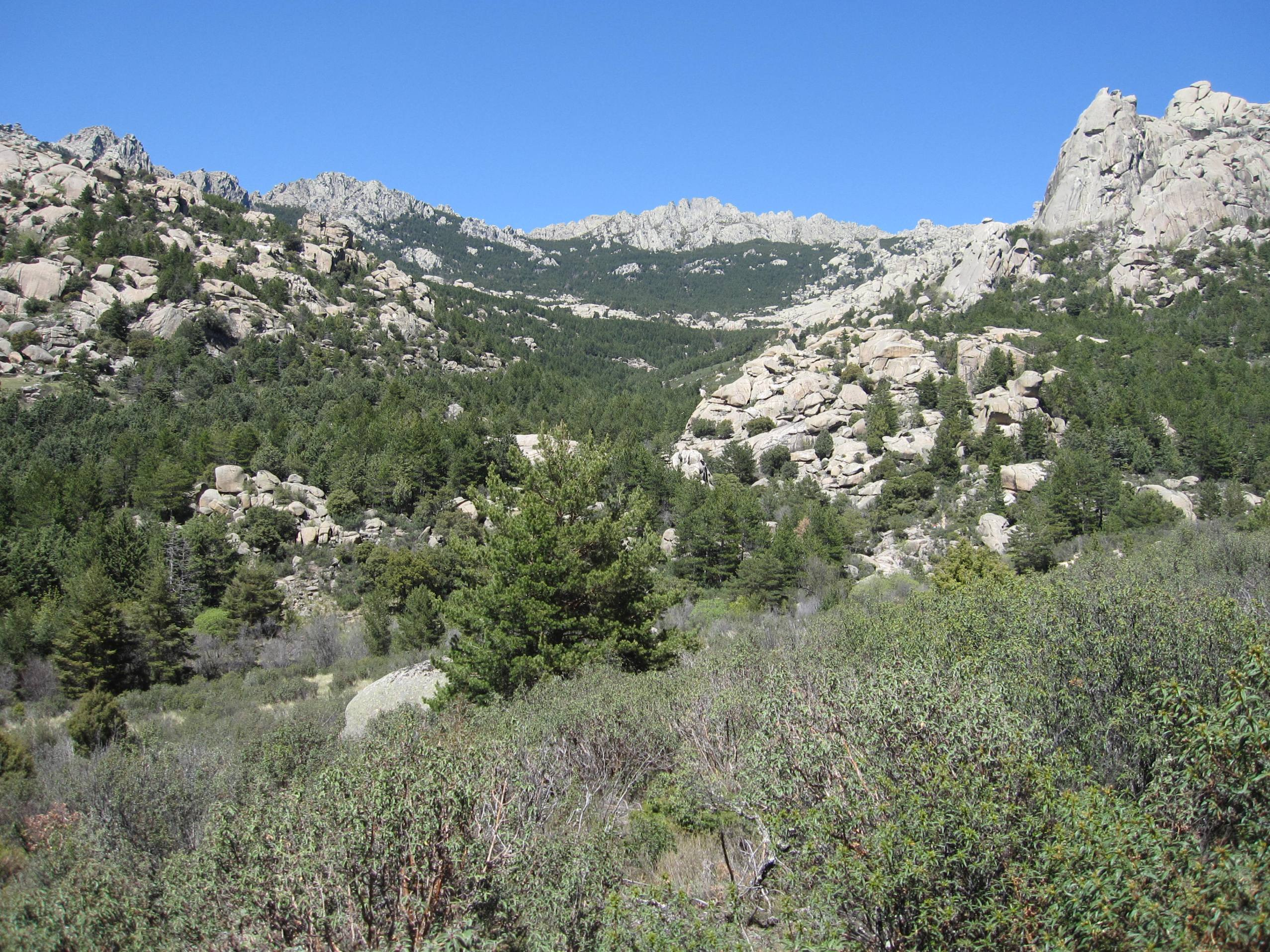 Pedriza Posterior (Guadarrama mountain range, central Spain).